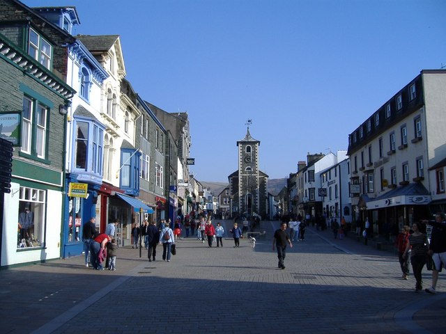 Market Square, Keswick